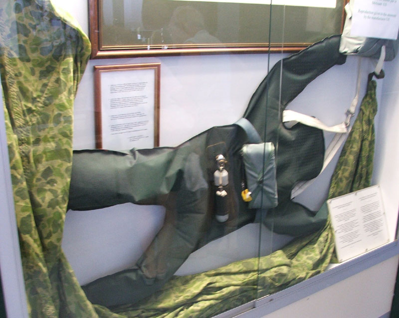 This is a reproduction Decoy Paratrooper Dummy called the "PD-Pack". This reproduction was created using the exact specifications of the original dummies. It was made and donated to the museum decades after the war by some of the men who had helped manufacture the original PD Pack paradummies during WWII. It was made of rubberized material and was inflated by the attached CO2 Bottle, then upon landing it was destroyed by the attached TNT block, leaving only the parachute behind - suggesting a real paratrooper had landed. Military records show that the PD Pack paradummies were used in August of 1944, during Operation Anvil-Dragoon in Southern France. It is believed they were used again later in the war in the South Pacific. A different type of paradummy, made of sack cloth and filled with straw, was used on D-Day, June 6th, 1944 during Operation Titanic. Titanic involved six British S.A.S. soldiers who parachuted into France on June5/6 along with dozens of sack cloth paradummies, to confuse and divert German forces away from the actual Allied Airborne landings. Photo is from the Airborne Museum in St. Mere Eglise - France. 2006. /PAJ